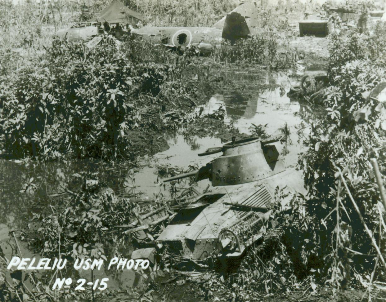 From the Frederick R. Findtner Collection (COLL/3890), Marine Corps Archives & Special Collections OFFICIAL USMC PHOTOGRAPH